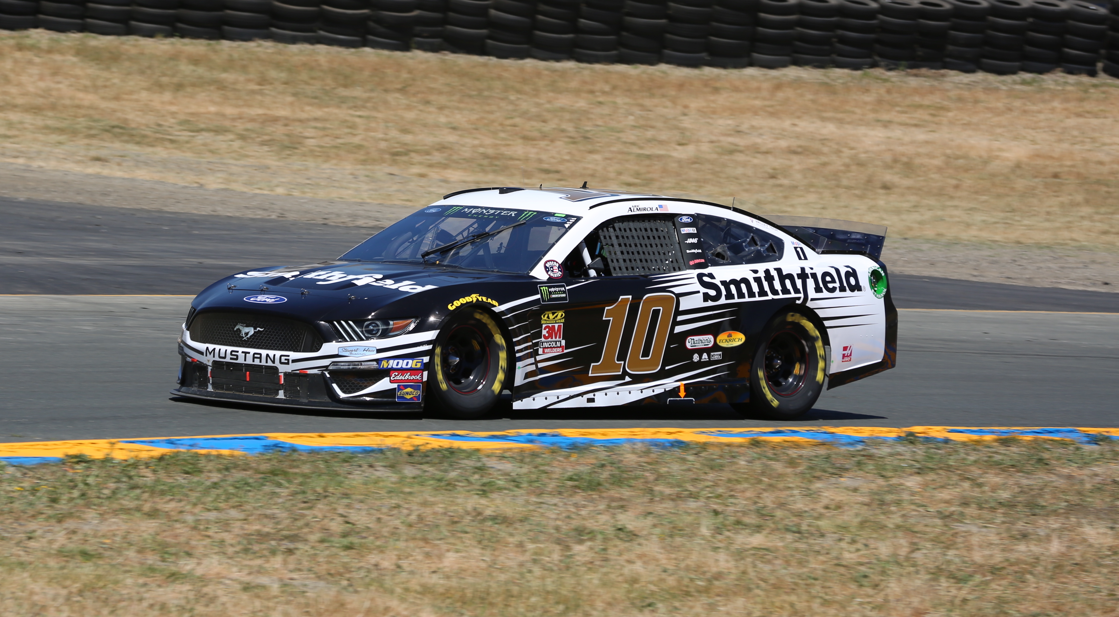 Aric Almirola's No. 10 Smithfield Ford at Sonoma Raceway in 2019